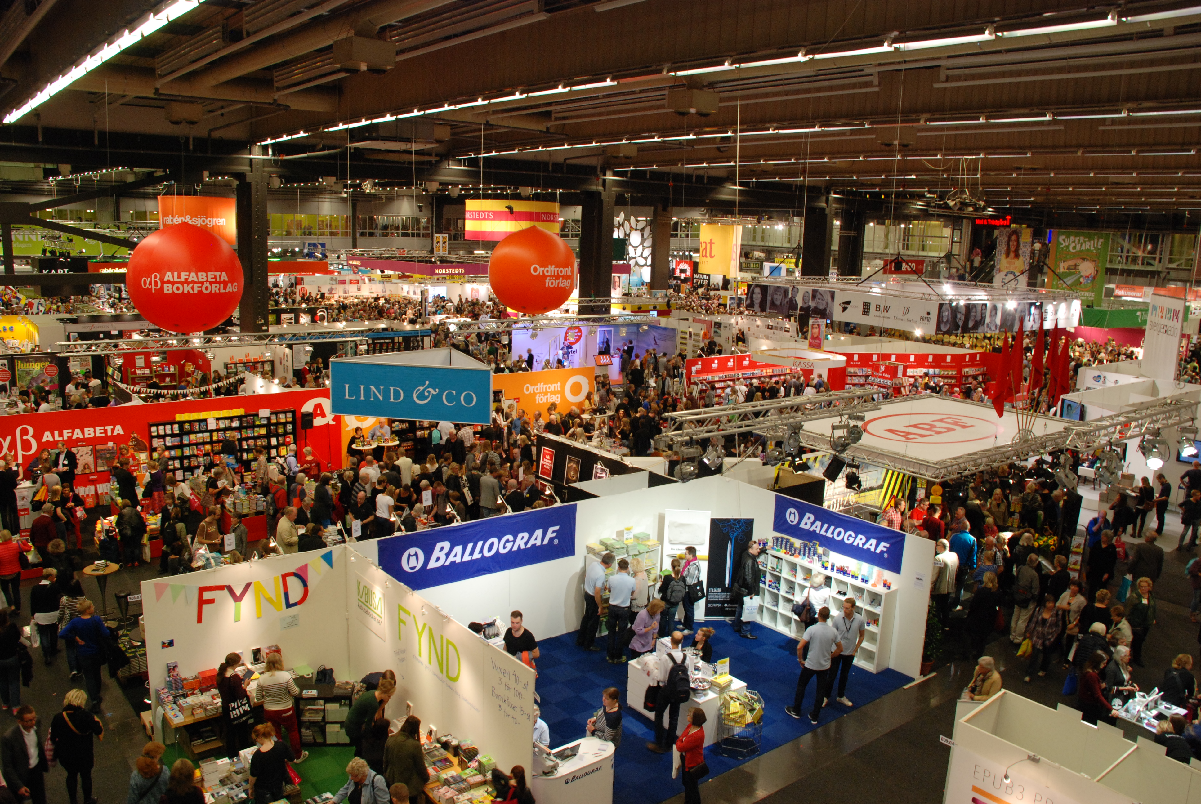 Göteborg Book Fair 2013 as seen from the second floor. A panoramic overview over parts of the exhibition area.